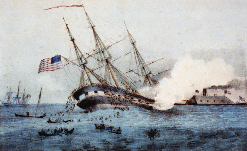 TITLE: The sinking of the "Cumberland" by the iron clad "Merrimac", off Newport News Va. March 8th 1862